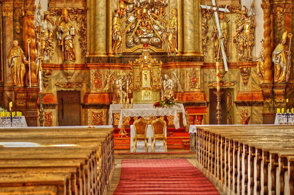 Church of Saint Mary and Saint Maternus in Lubomierz